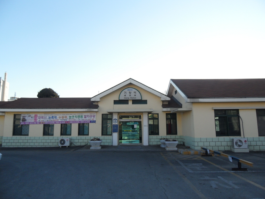 Korail Gijang Station